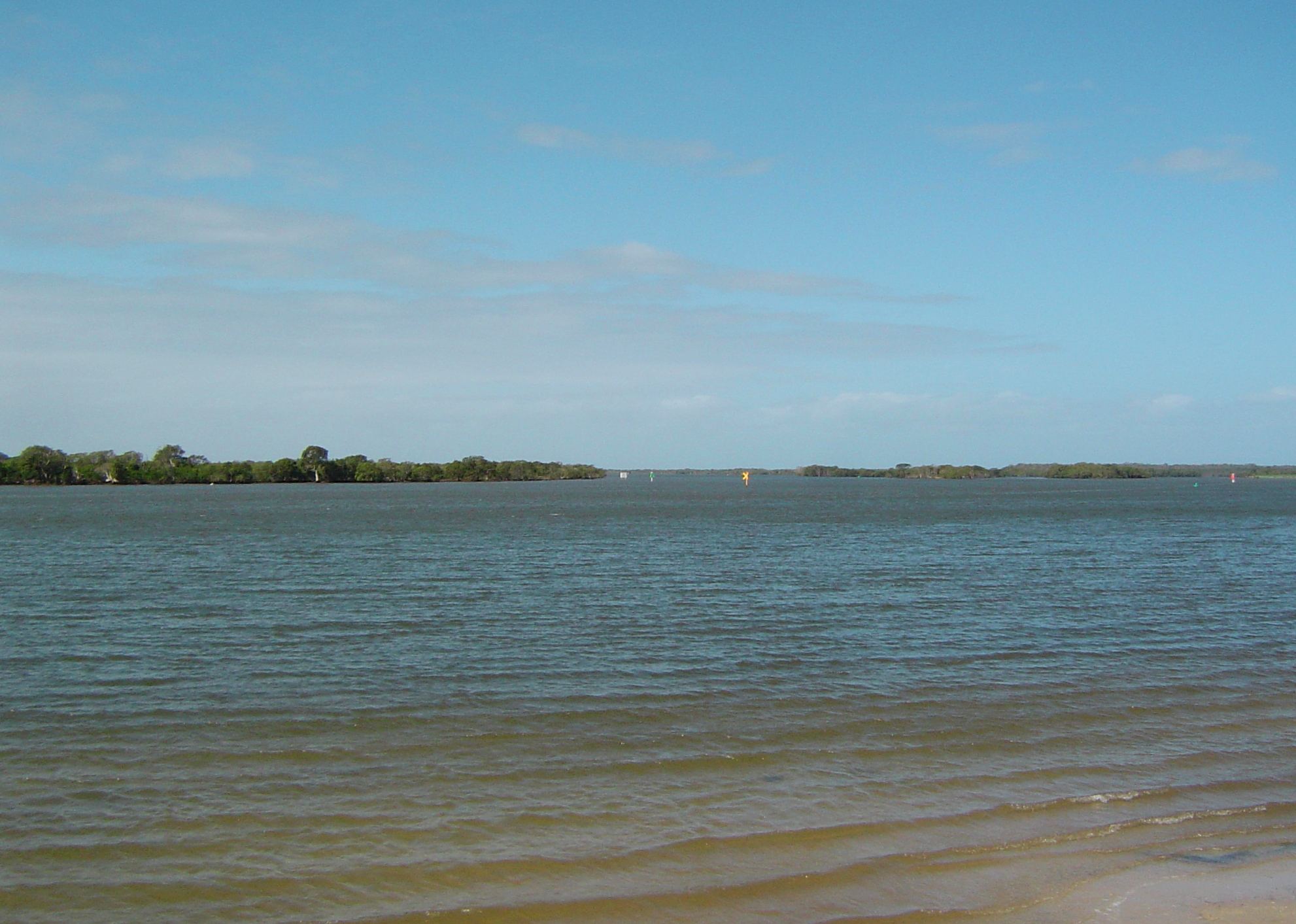 Photo of Tipplers Passage between Kangaroo Island (left of image) and Woogoompah Island in the south of Moreton Bay, South East Queensland, Australia. Both the islands are part of the Southern Moreton Bay Islands National Park. Photo taken from the shore at Jacobs Well.